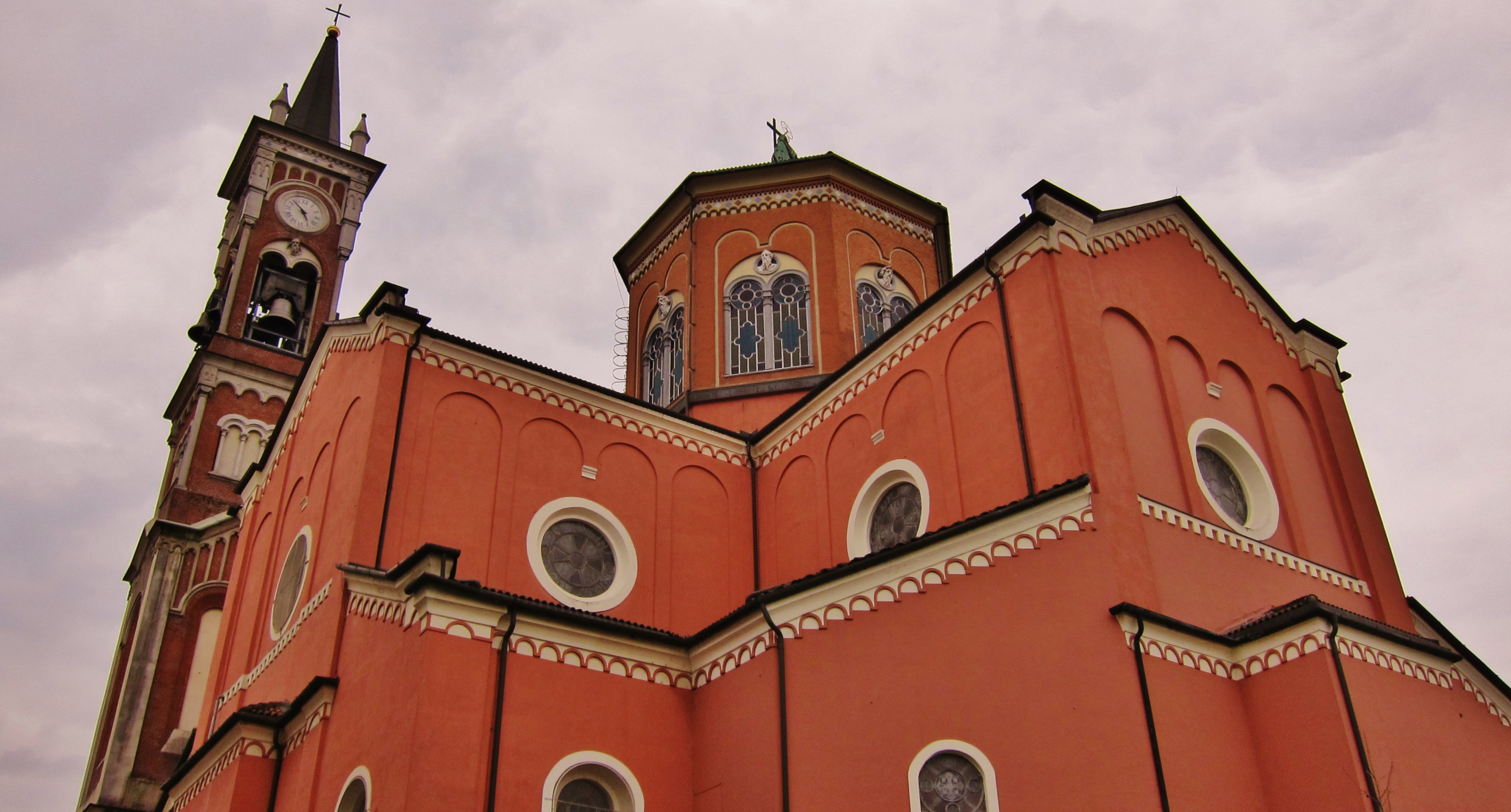 Backside of San Domenico church in corso G. Garibaldi, Legnano